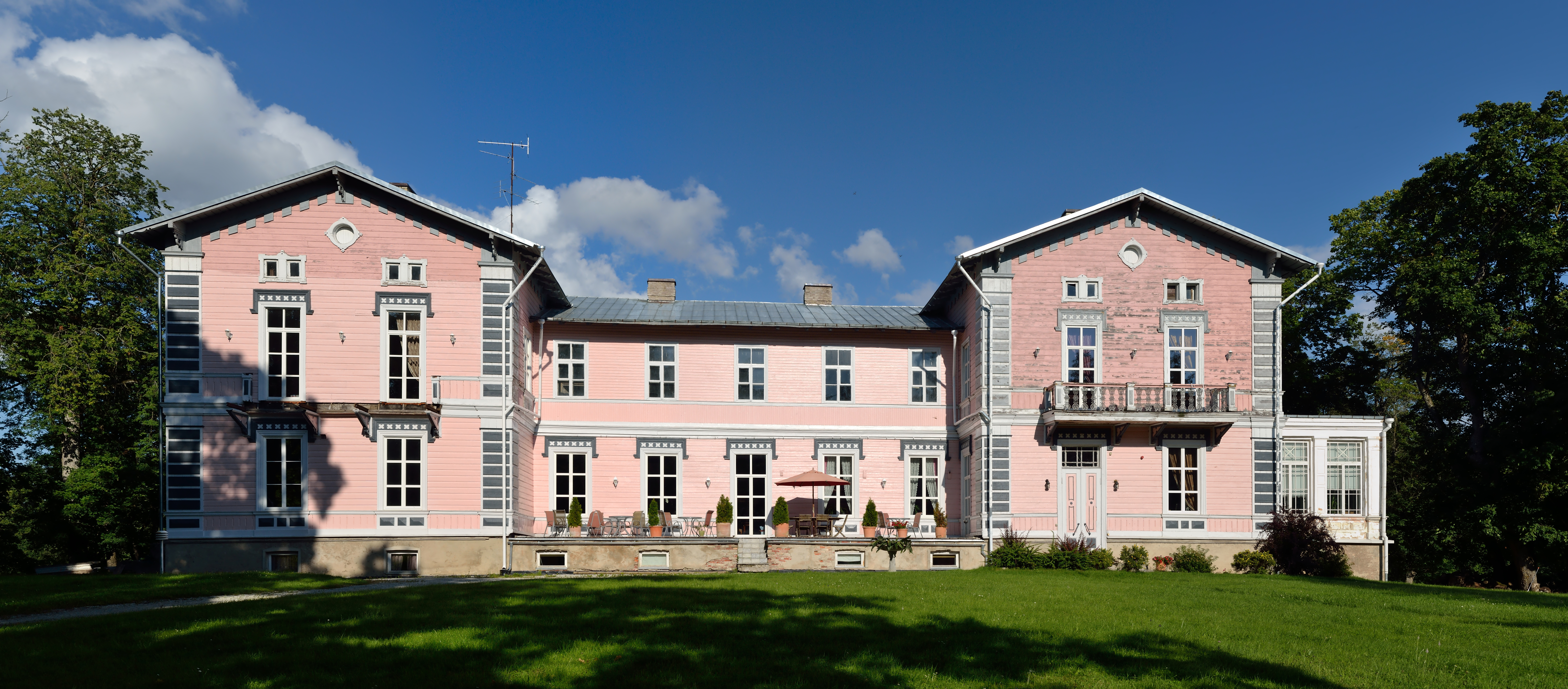 Kohala manor main building